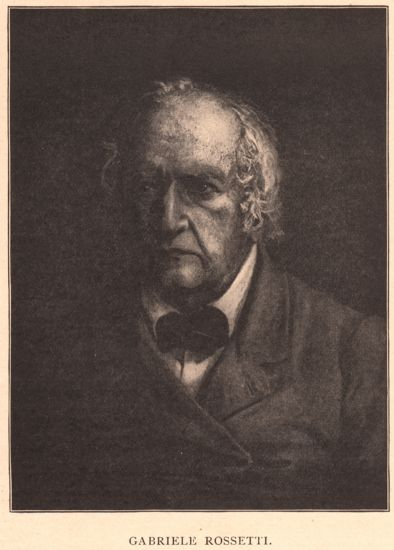 Gabriele Rossetti, Italian poet and scholar. Active for a substantial part of his life in London, he was the father of D.G. Rossetti and his three sisters.